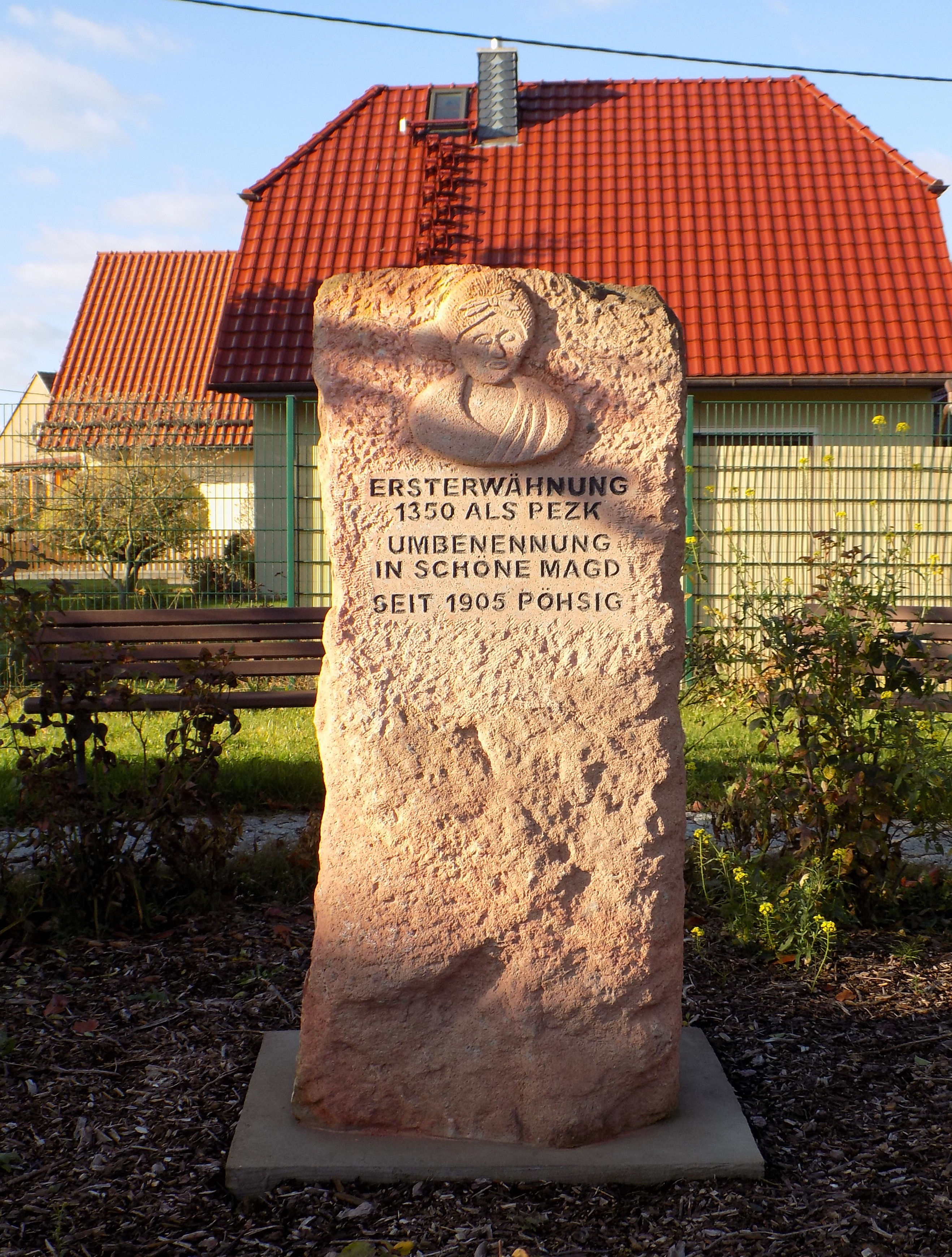 Memorial stone in the village square of Pöhsig (Grimma, Leipzig district, Saxony)